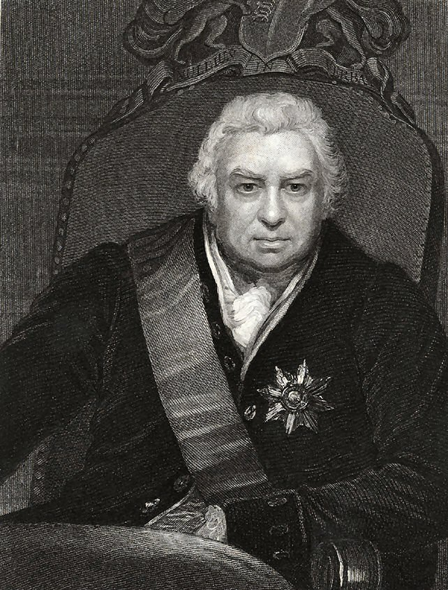 This is an close-up of Sir Joseph Banks, cropped from the official portrait of Banks as President of the Royal Society.